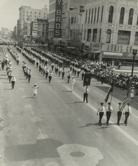 Firefighters marching in a parade